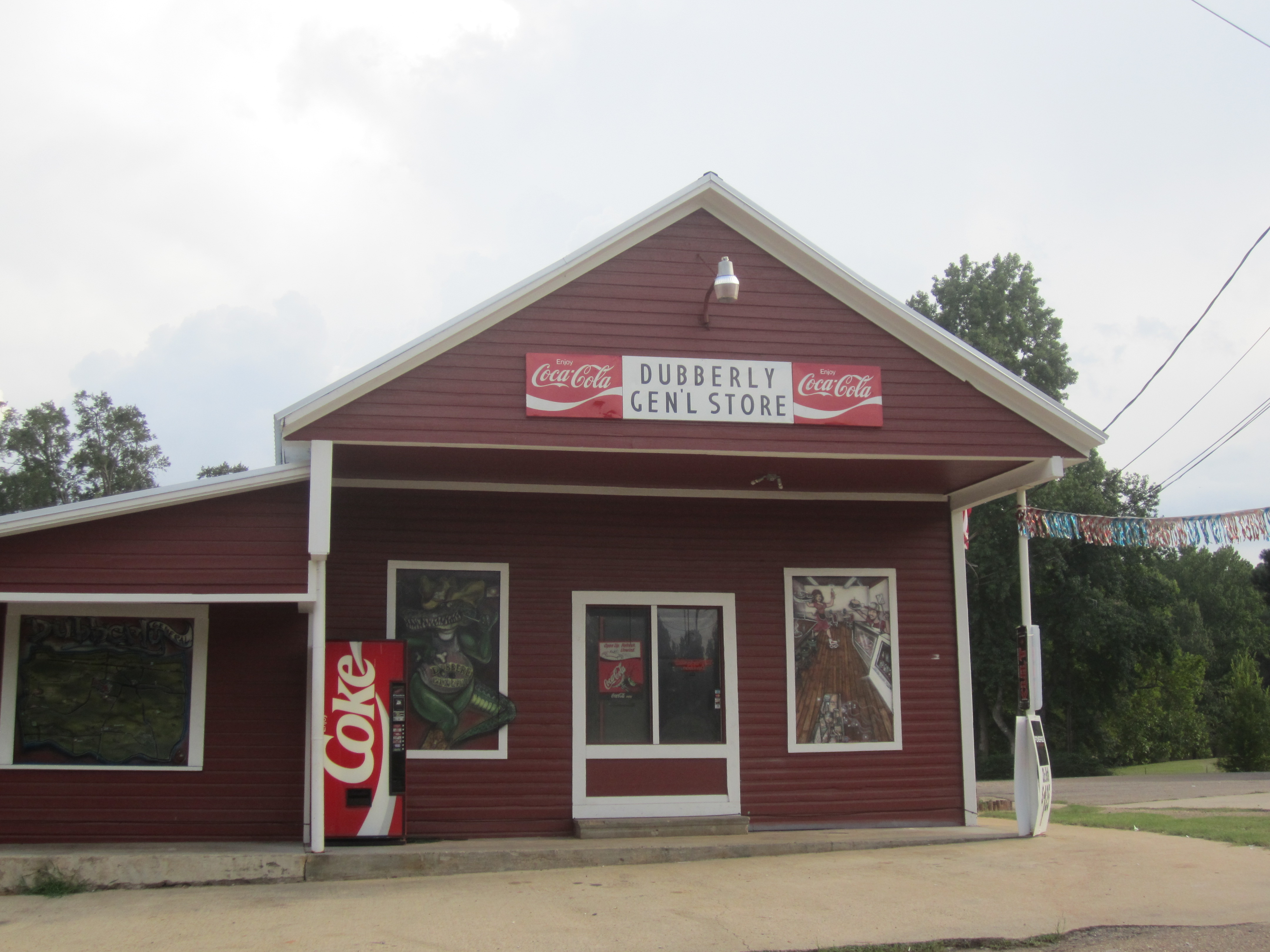 I took photo with Canon camera in Dubberly, LA.